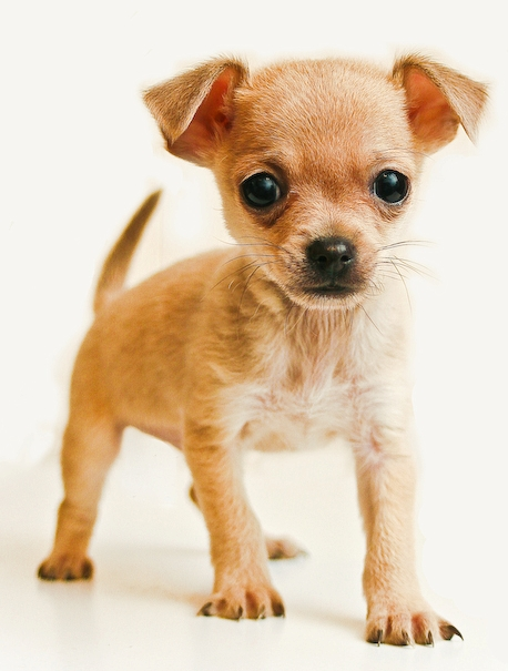 I found a new puppy to take pictures of, you'll be seeing a lot of him. – Chihuahua